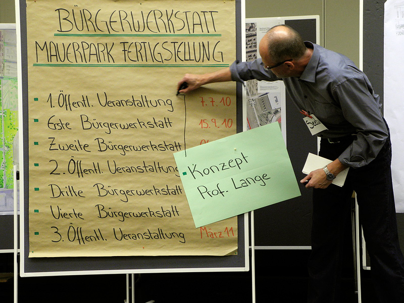 Milestones of the Wall-Park-Workshop